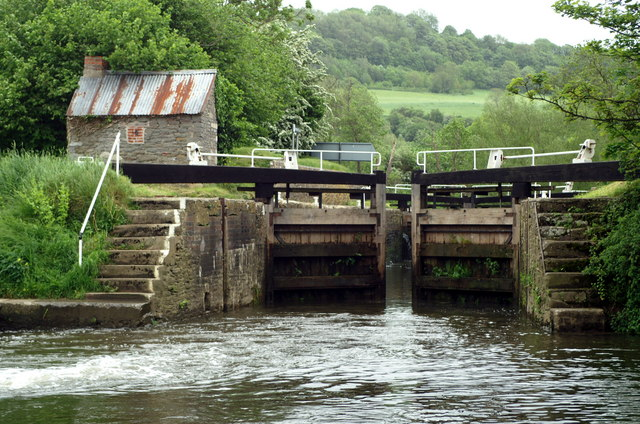 Below Swineford Lock, River Avon, Gloucestershire. Looking up through Swineford Lock towards the hills below North Stoke.